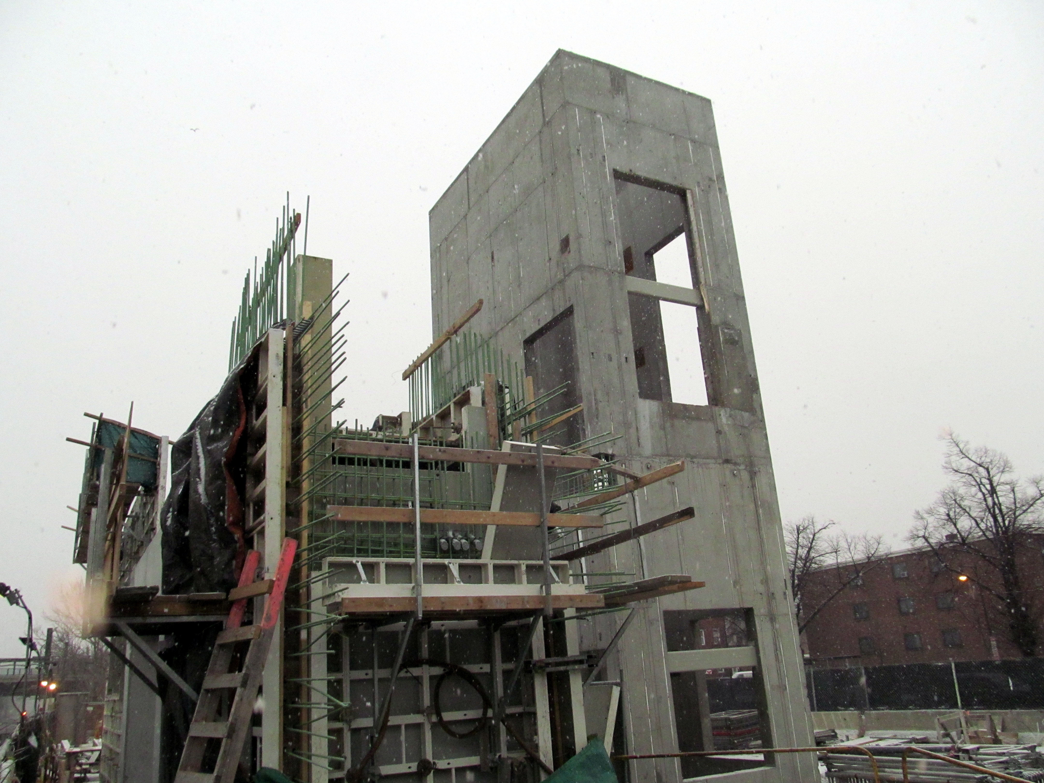 Inbound elevator shaft under construction at Orient Heights in January 2013